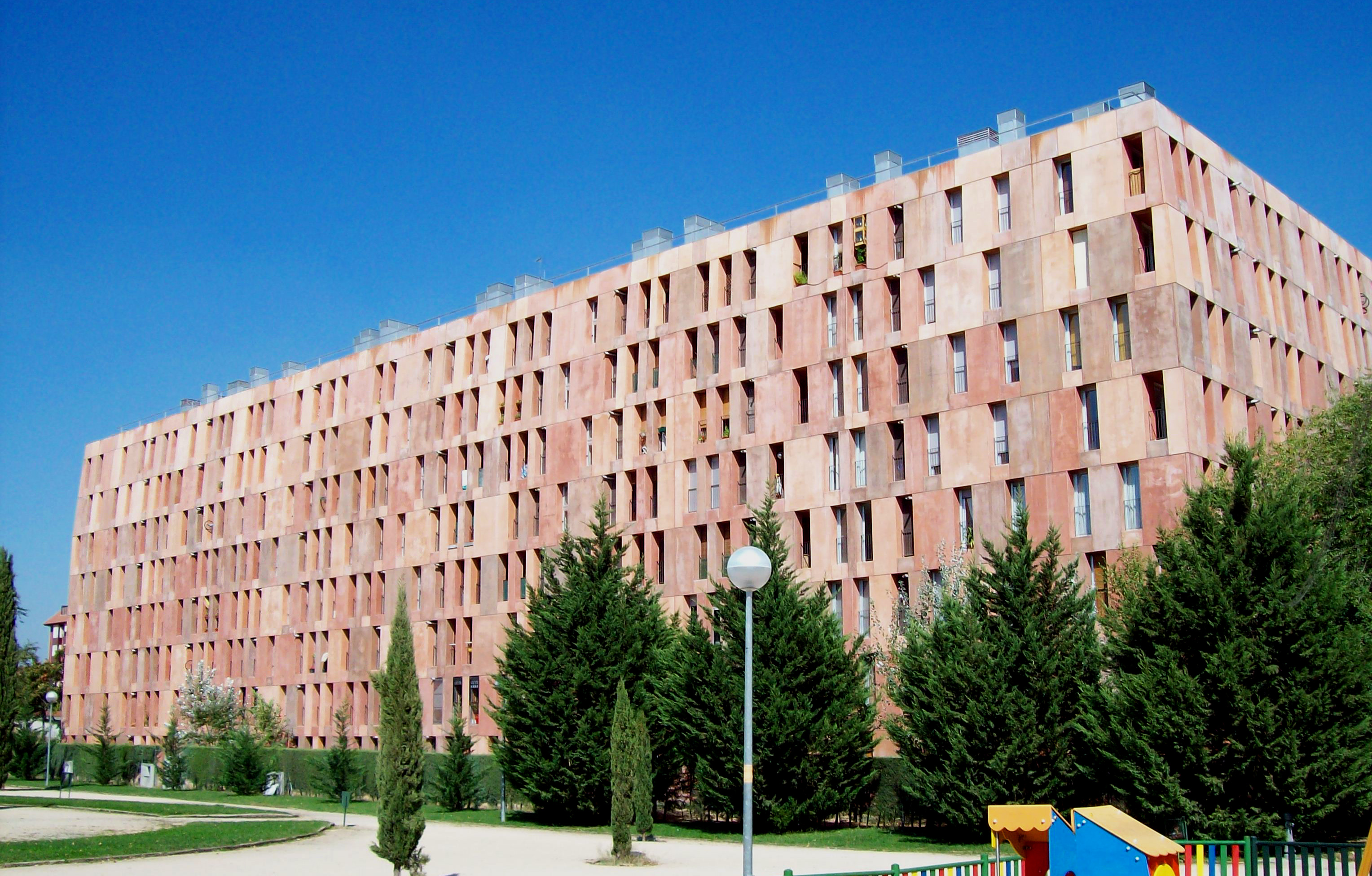 South-west façade of Verona 203A building in Madrid (Spain).